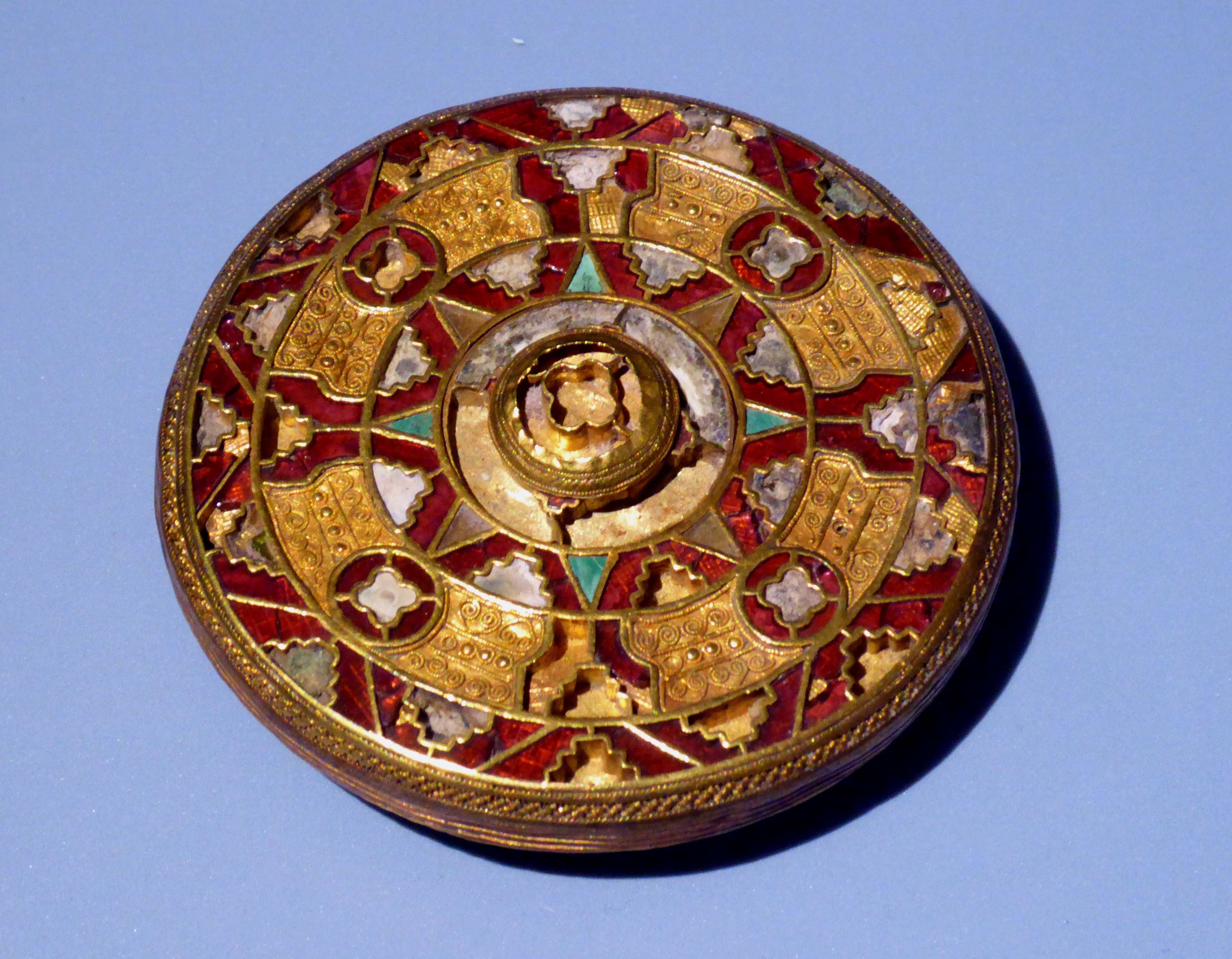 An Anglo-Saxon disc brooch recovered from the cemetery at Monkton, Kent. On display in the Ashmolean Museum (AN1972.1401).